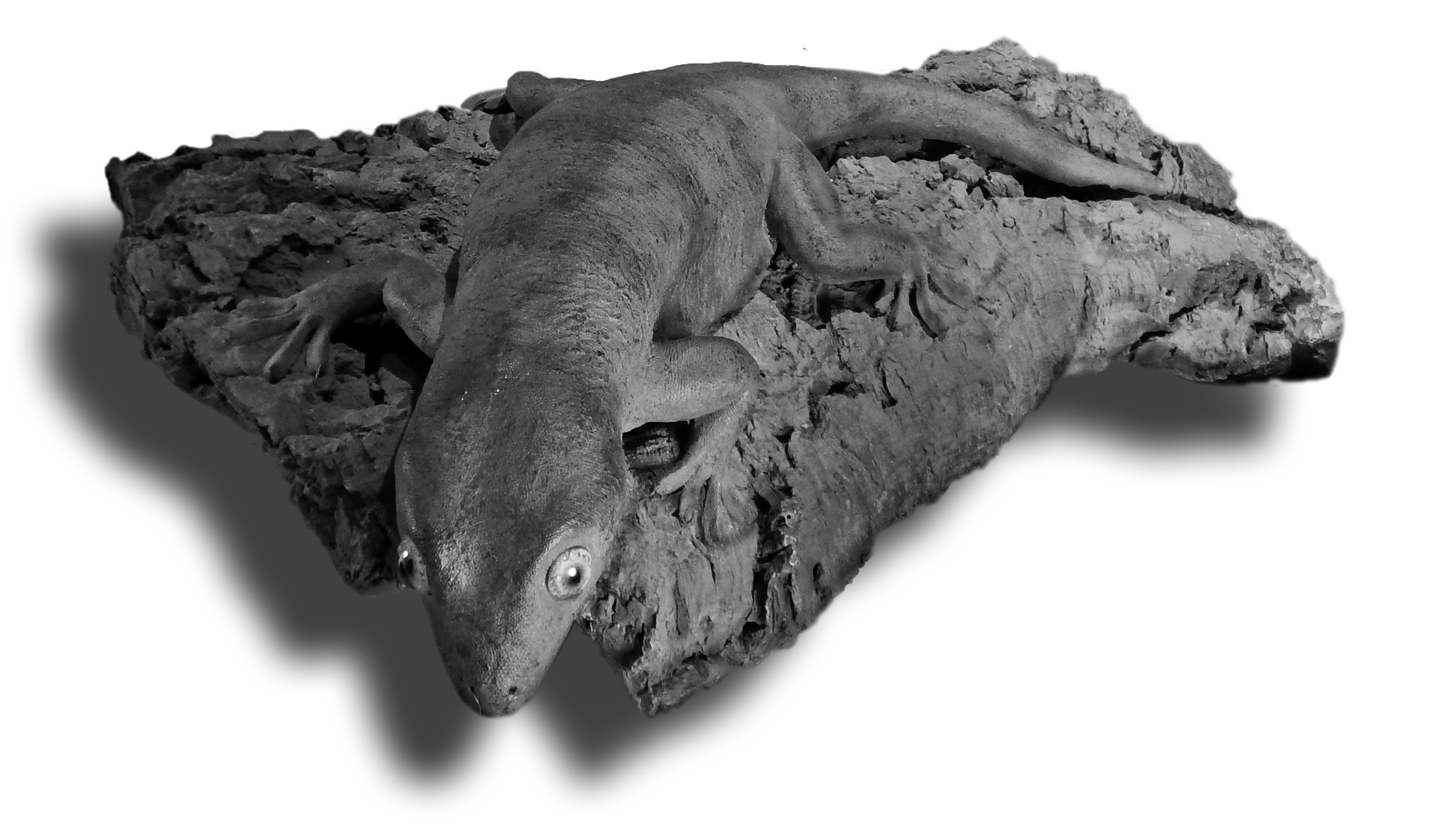 Delcourt's Gecko (Hoplodactylus delcourti): a giant gecko species, endemic of New Zealand wich became extinct species in the second half of the nineteenth century ; considered extinct in 1870. It could reach 60 cm long, . Only a few reconstituted or naturalized specimens (like this one) are held by some natural history museum in the world. This object was part of the exhibition "The dear departed" presented to the public in 2000 by the Lille Natural History Museum (MHNL)